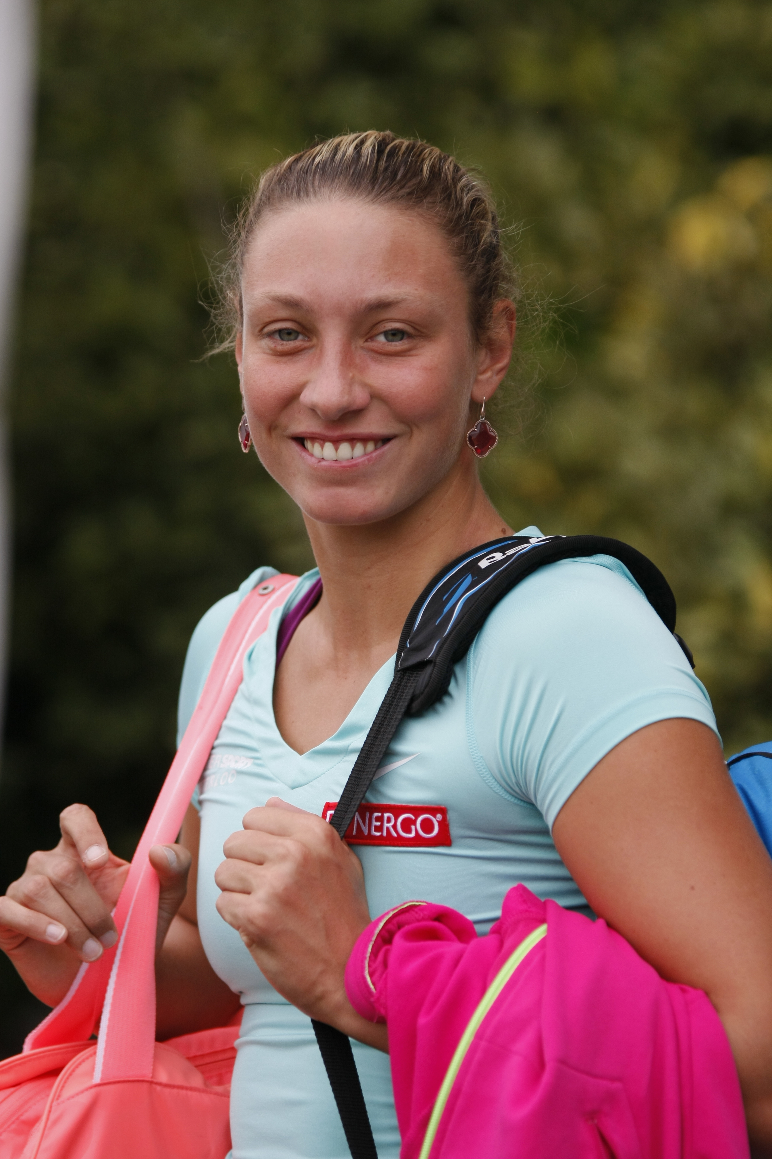 Aegon International Tennis, Devonshire Park, Eastbourne June 2015